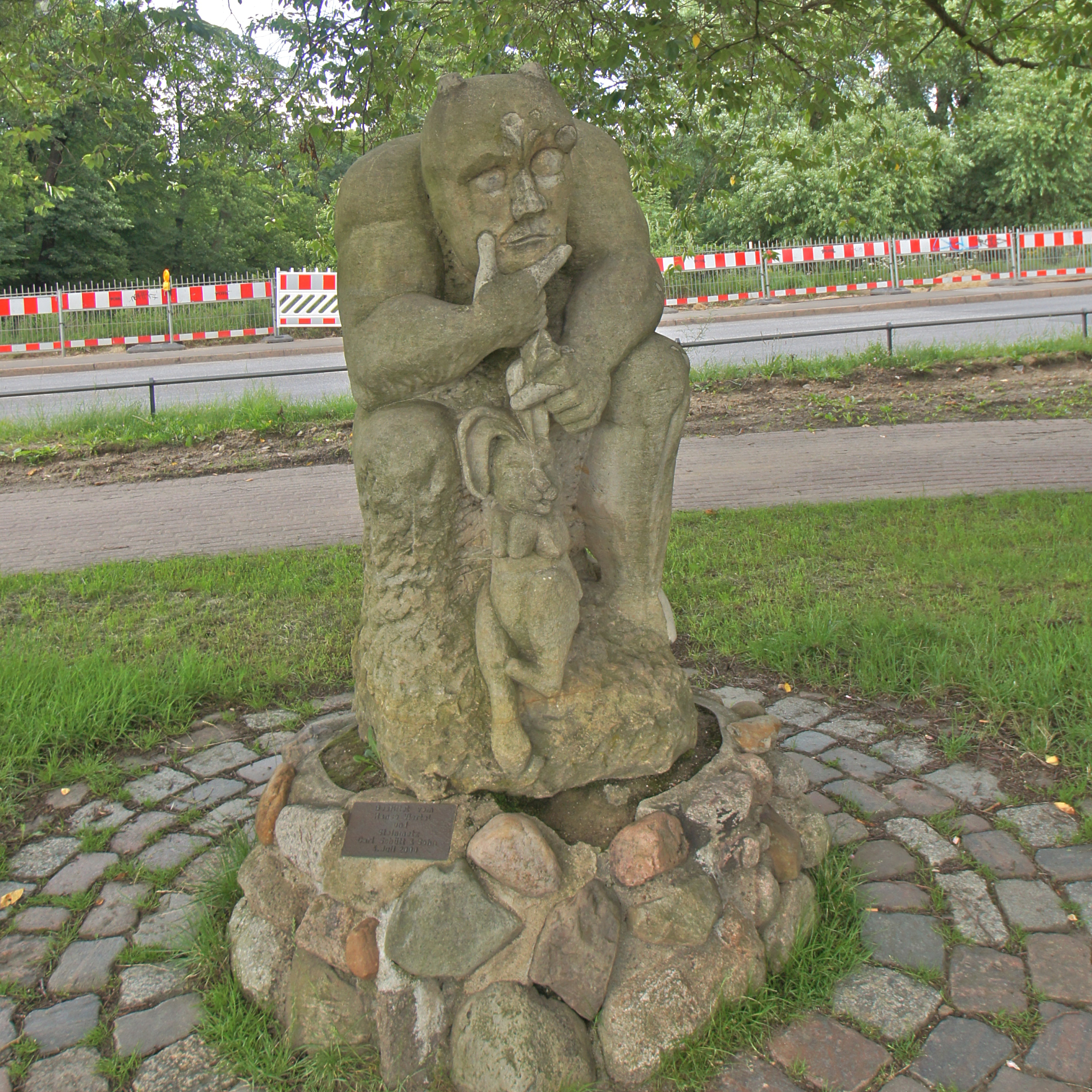 Hamburg (Othmarschen), Germany: The devil of the port of Teufelsbrück